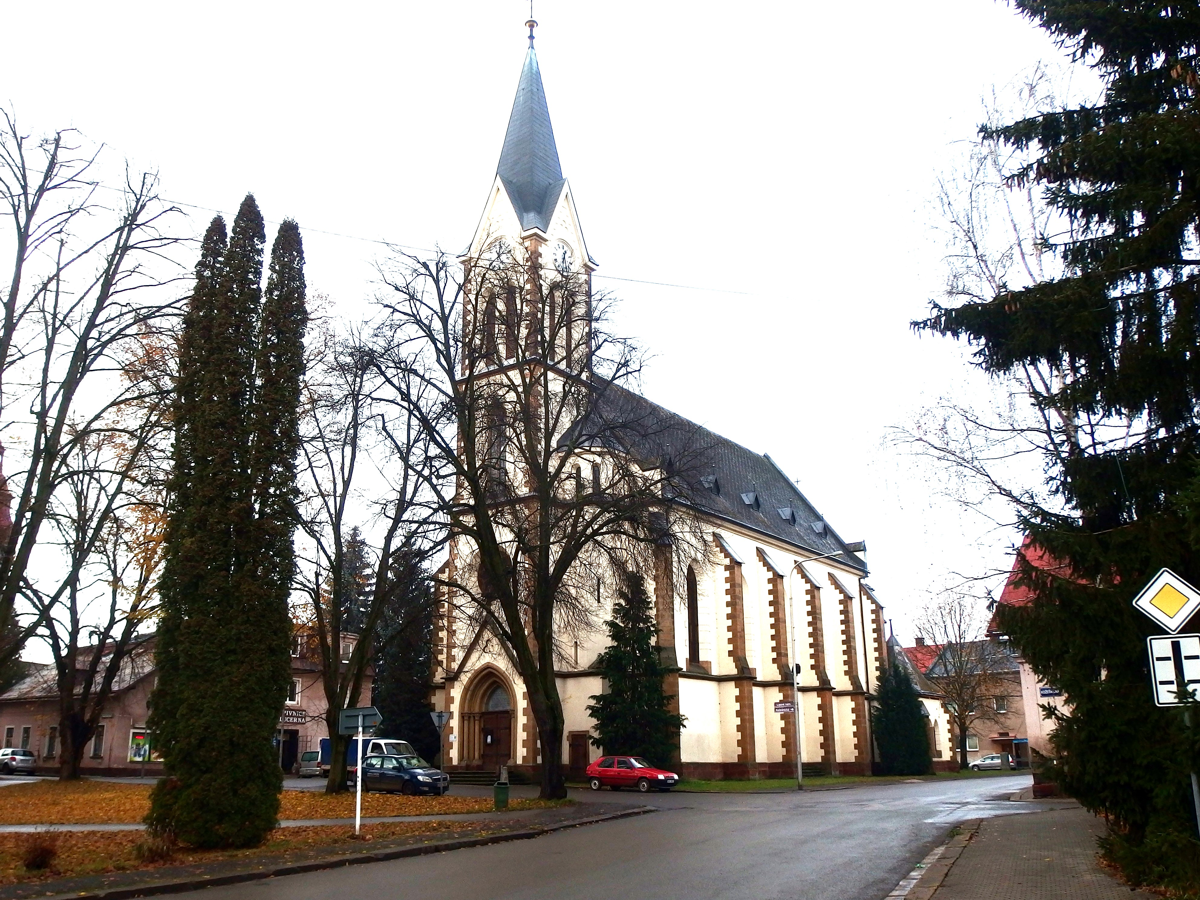 Trutnov, Czech Republic, part Poříčí. Church of Saints Peter and Paul.